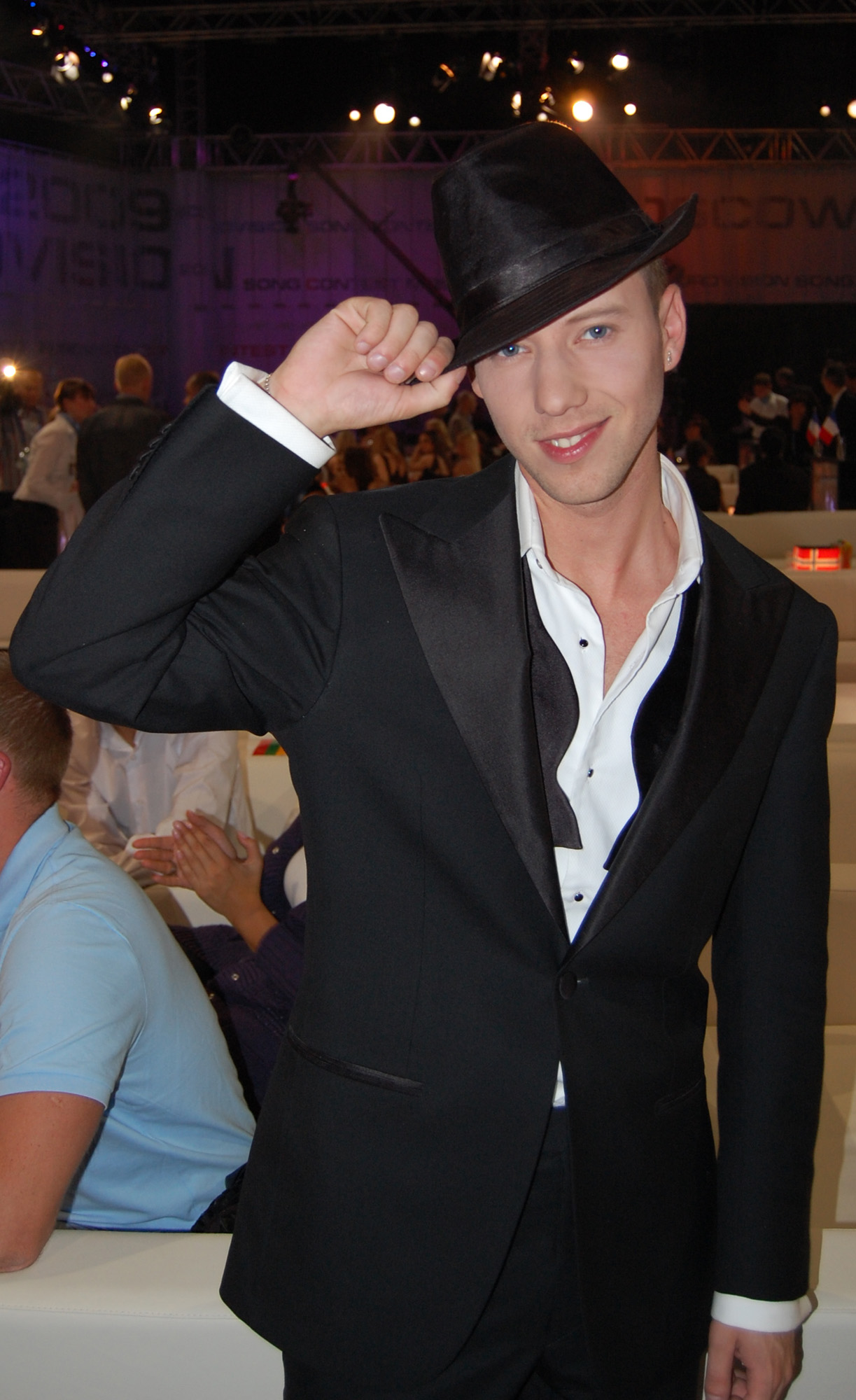 Sasha Son